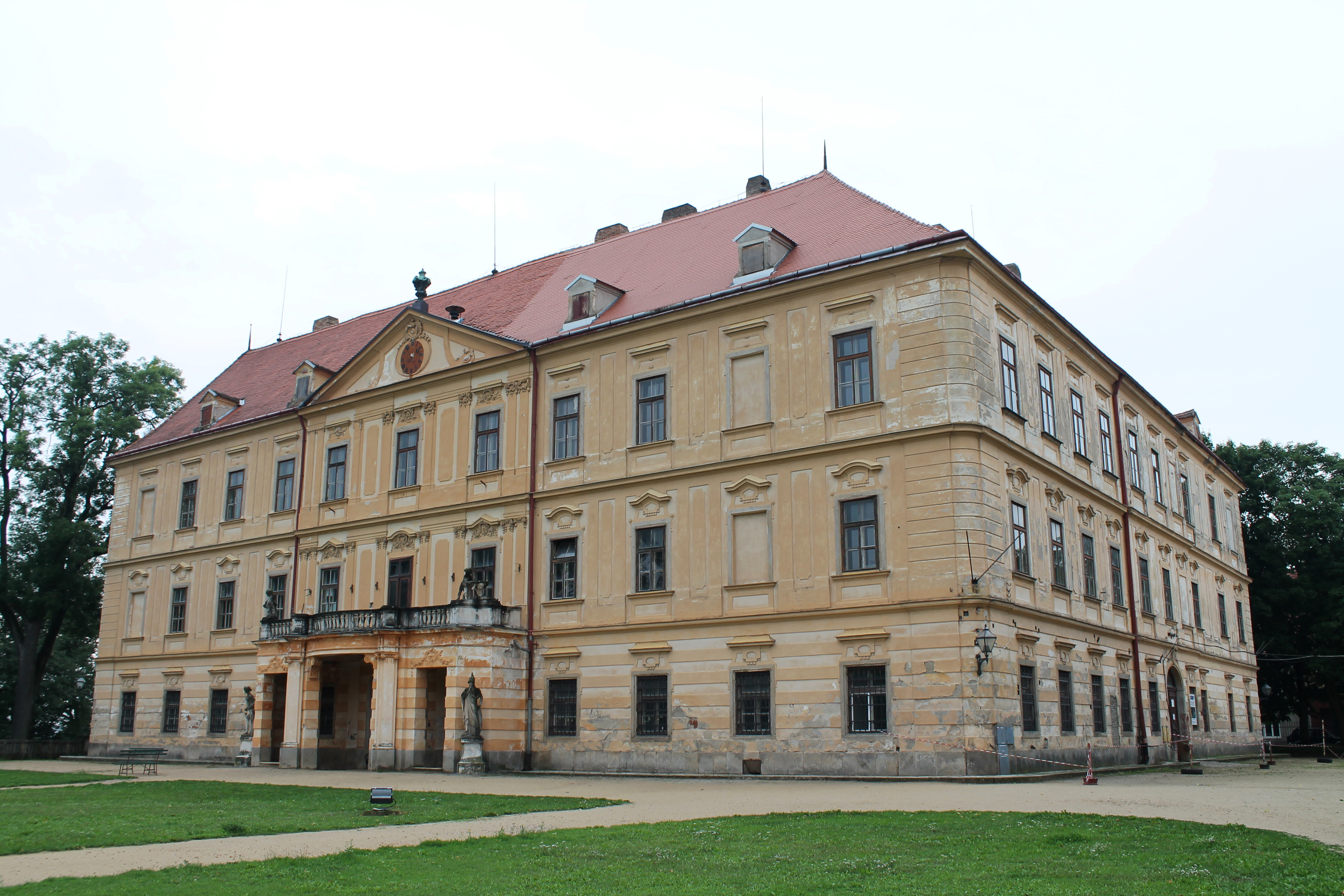 Jemnice Castle, Třebíč District, Czech Republic